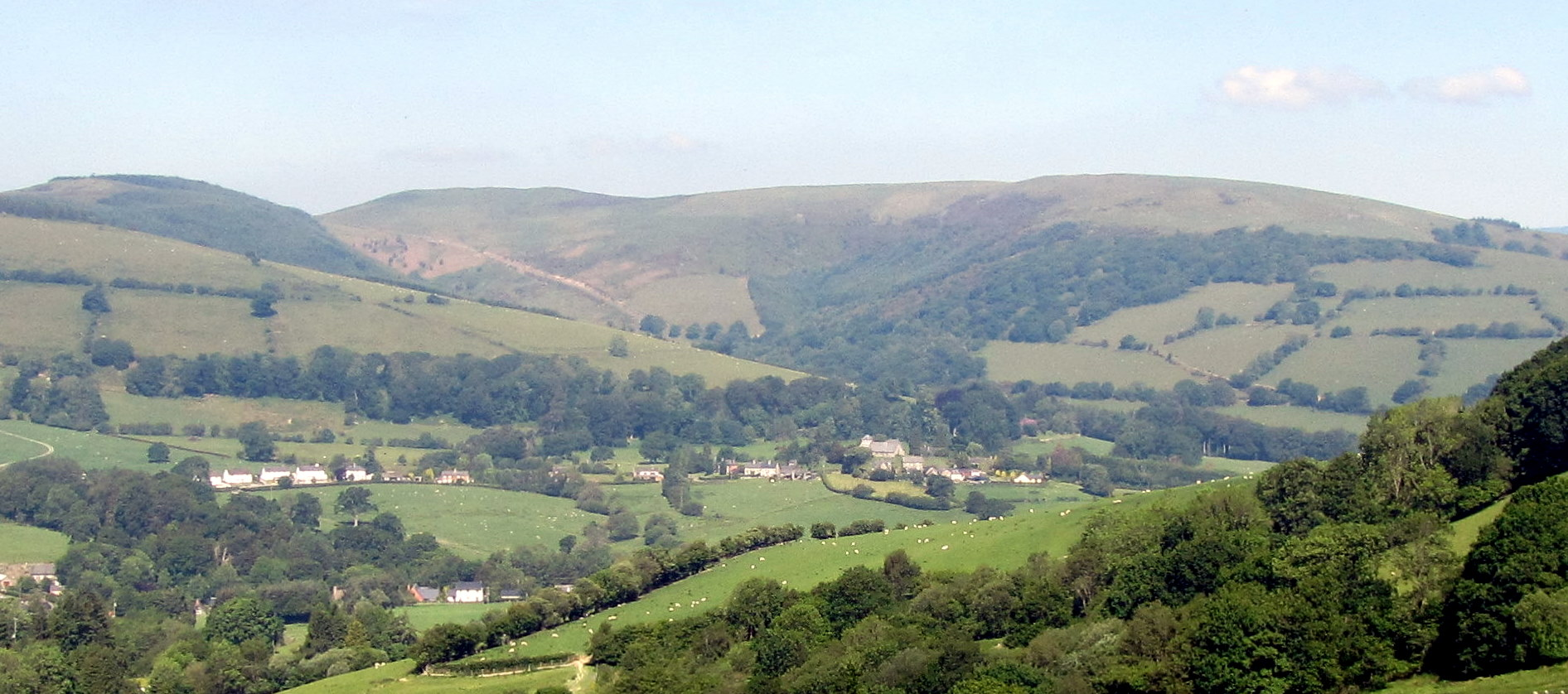 Llan